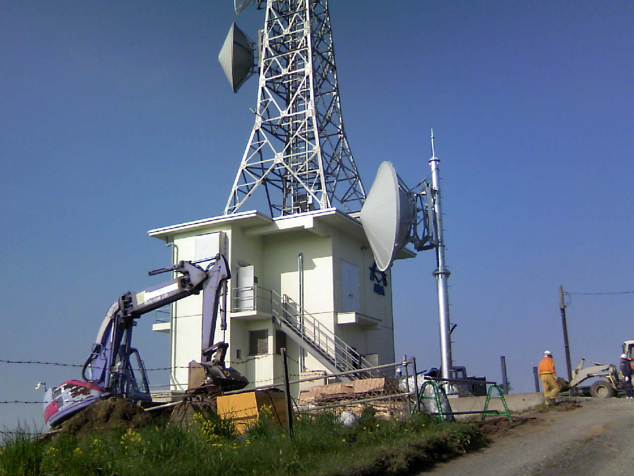 建設中の「八戸デジタルテレビ放送中継所（ABA）」（青森県階上岳） (ABA Hachinohe Area Broadcast Relay Place - Hashikamidake, Aomori, JAPAN)